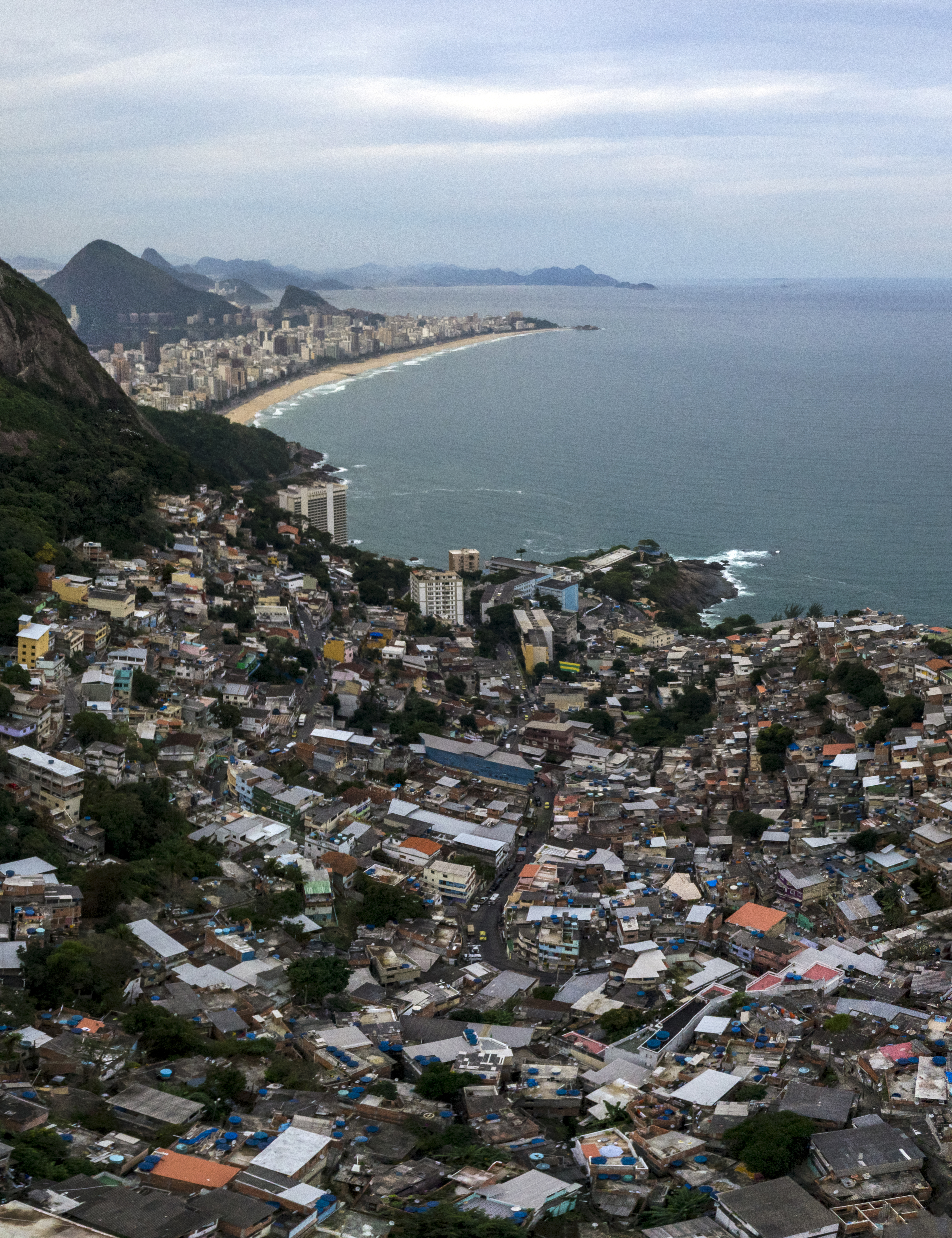 aerial shot of vidigal favela rio de janeiro 2014